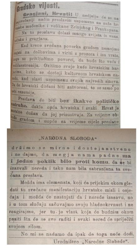 Call the editorial board of the National Freedom to the Croats of Mostar to officially mark the memory of Croatian martyrs and great men Zrinski and Frankopan